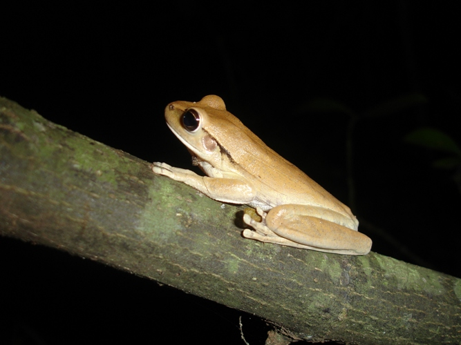 Hypsiboas raniceps